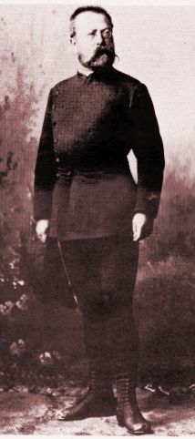 German hygienist Gustav Jaeger wearing the "normal dress" invented by him